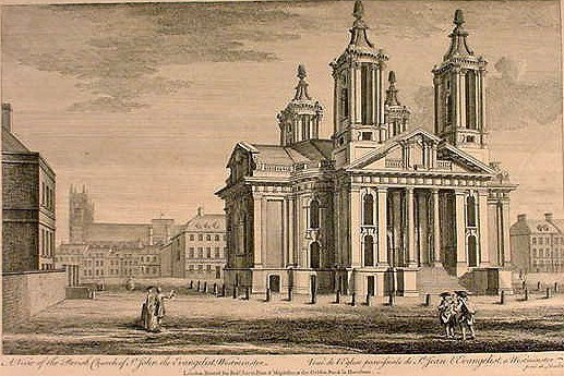 An 18th century engraving of St John's, Smith Square in London. Westminster Abbey appears in the background.